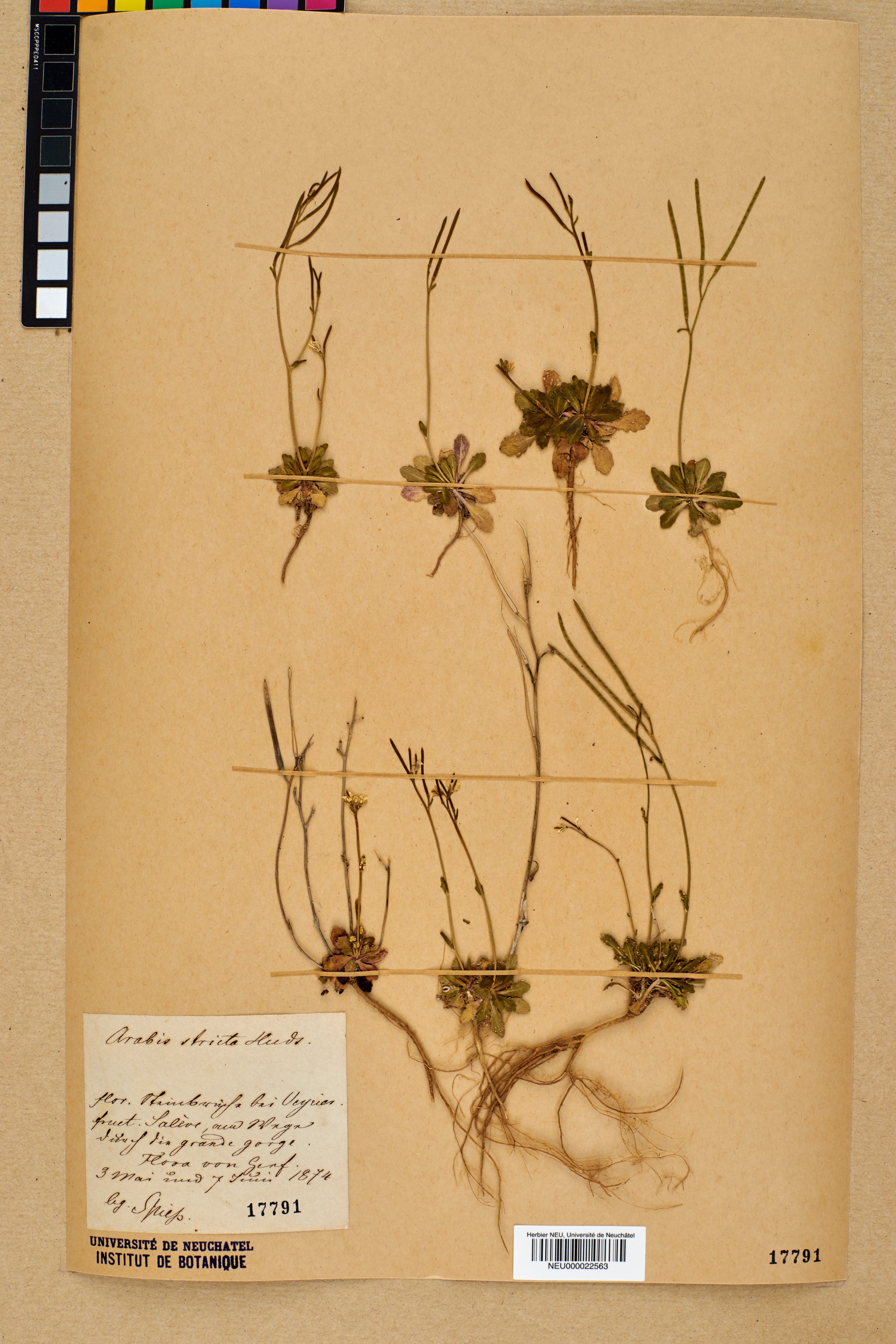 Dried pressed specimen of Arabis scabra